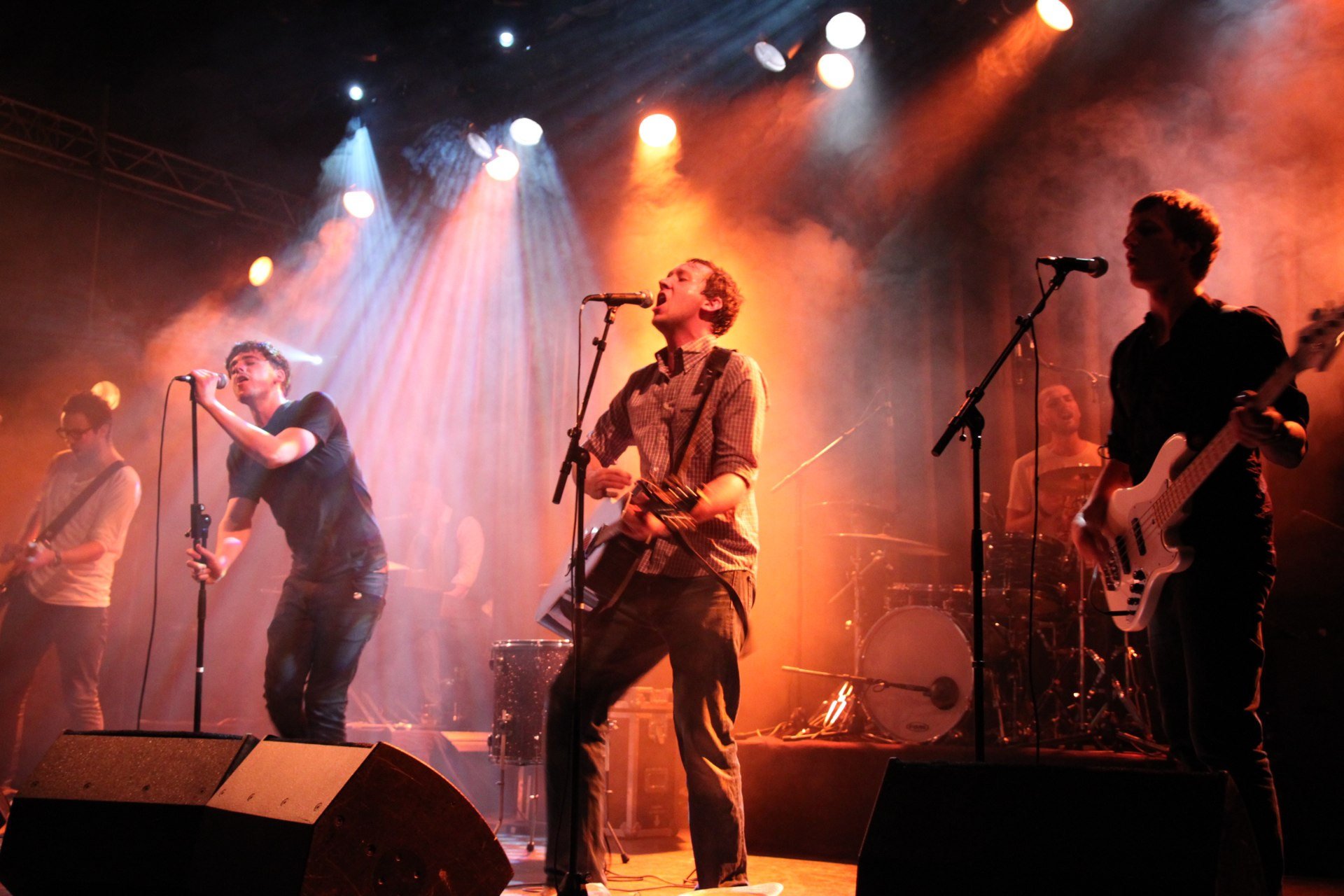 The band Casa Murilo playing a show at Parkteateret in Oslo, Norway